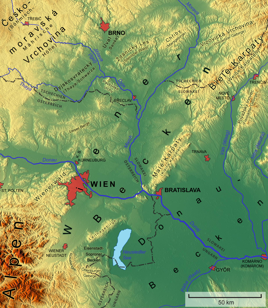 Physical map of Vienna Basin and sourrounding mountain ranges and plateaus (base map